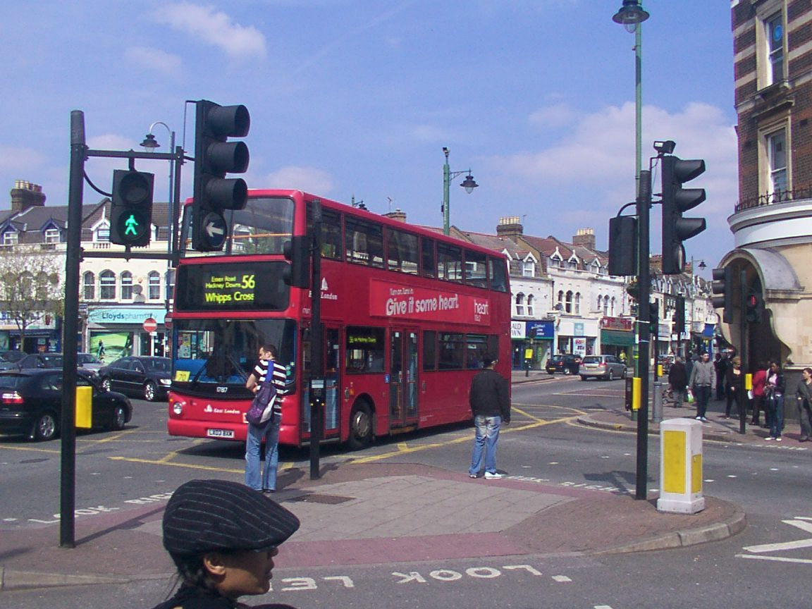 Before the advent of the Scania Omnicity on the route. The bus is running in the direction of St Bartholomews Hospital but is showing a destination of where it has started from.